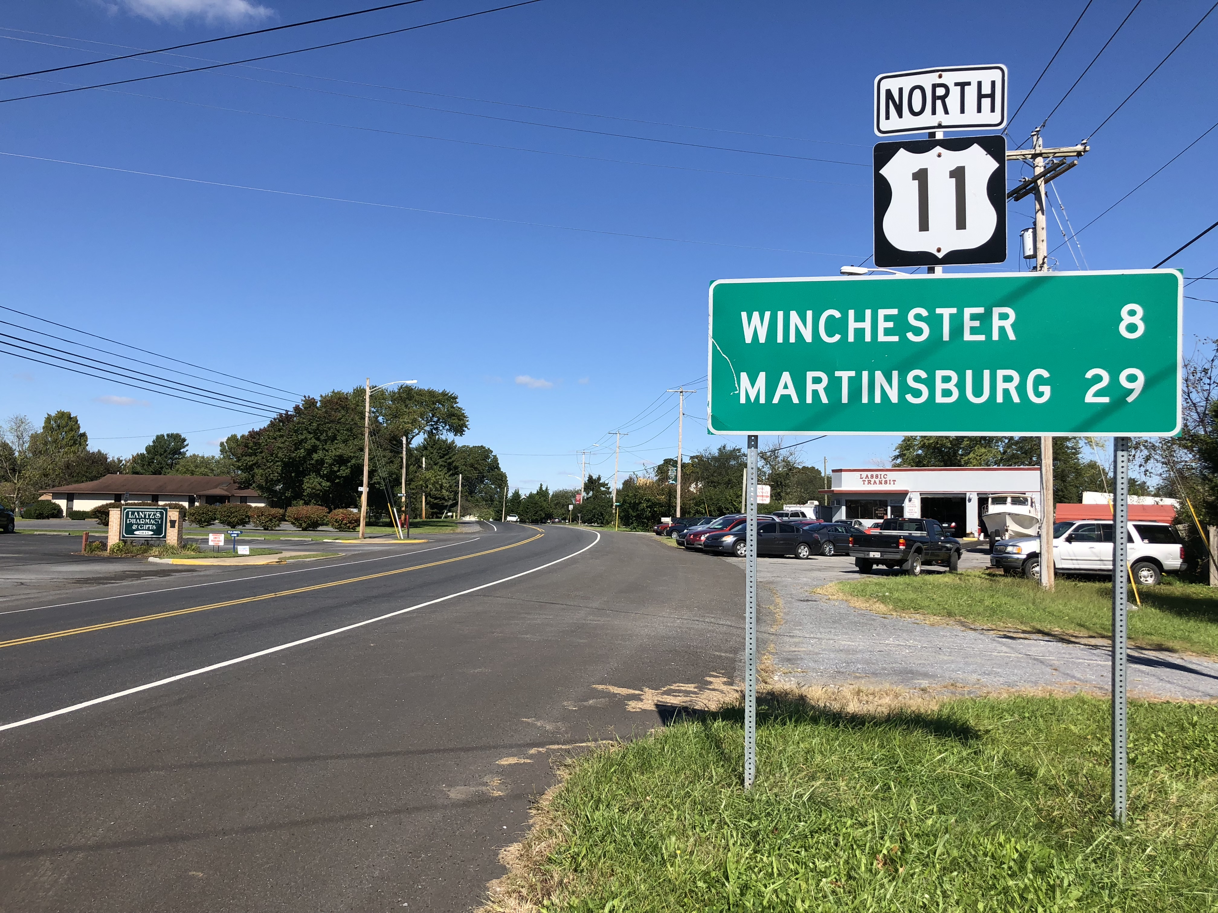 View north along U.S. Route 11 (Main Street) just south of Barley Drive in Stephens City, Frederick County, Virginia